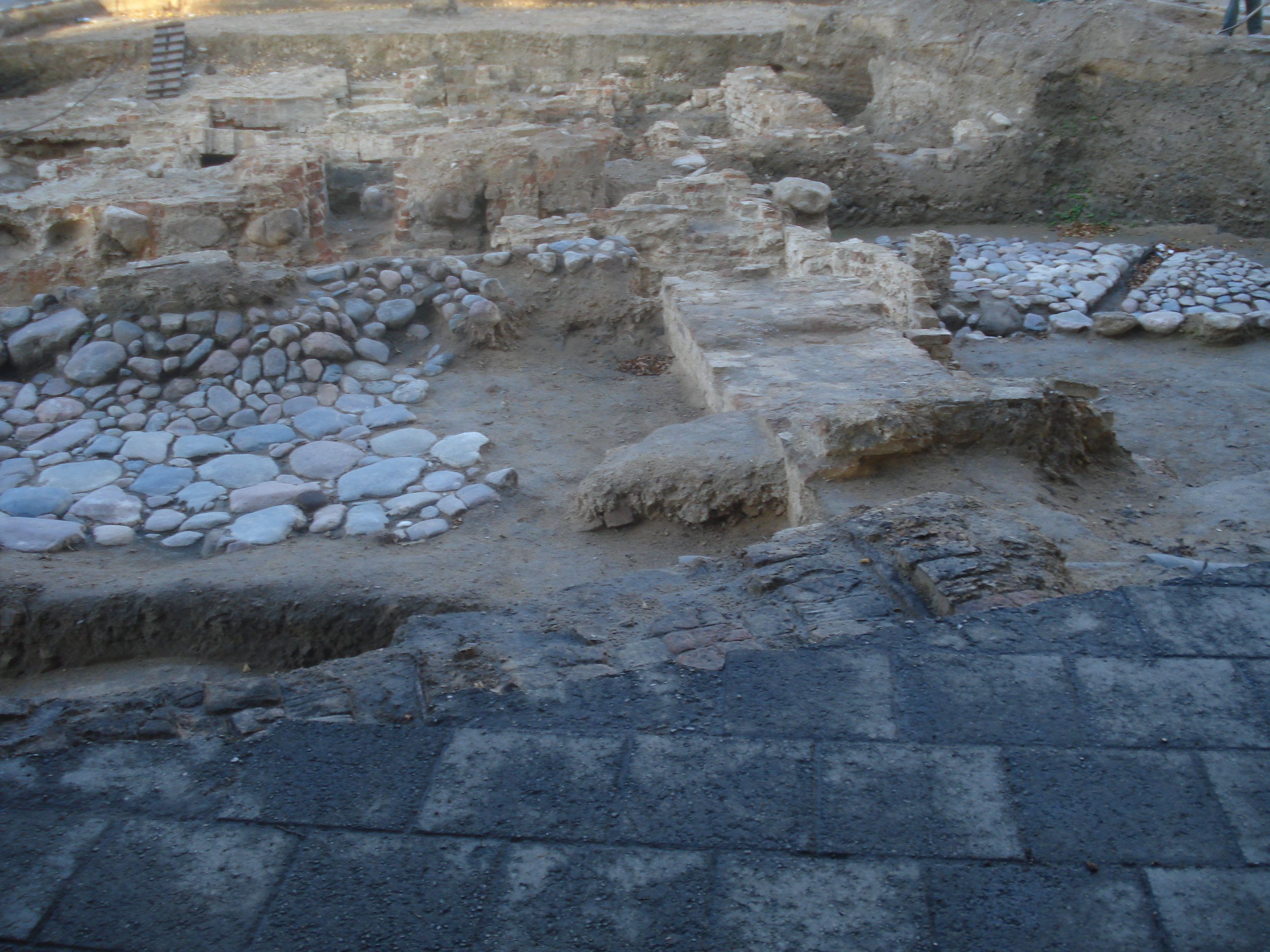 Remains of pavement (19 century) and Castle's gate (14 century) in the Cathedral Square in Vilnius